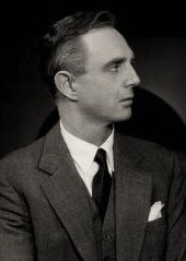 L. to R. : Katharine Cornell, Robert Flemyng & John Emery in the W. Somerset Maugham play's The Constant Wife, Chicago - publicity still (cropped : see source)